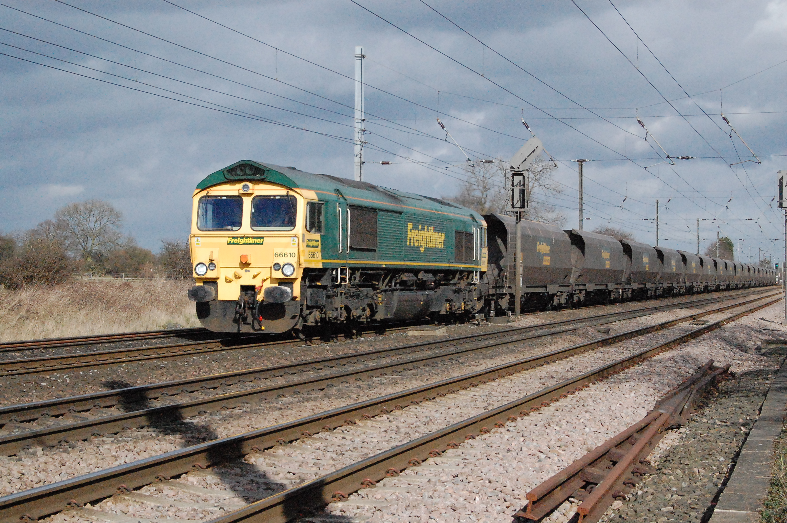 Class 66 Locomotive